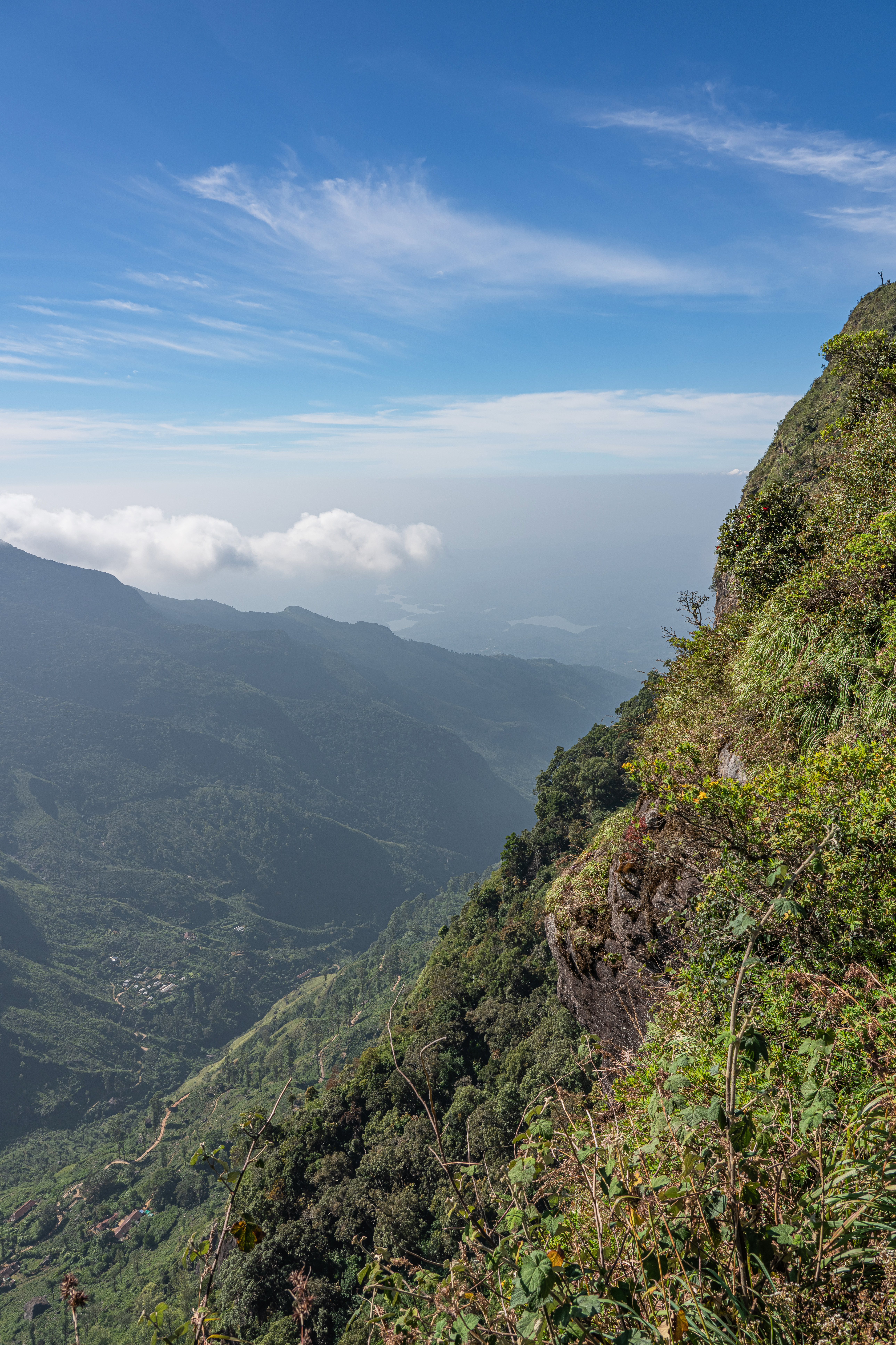 Scenic viewpoint called «World's End» in the Horton Plains National Park, Sri Lanka